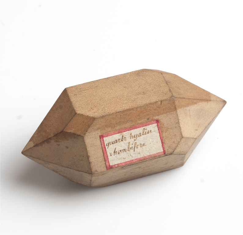 Rhomboid Rock Crystal (Quartz hyalin rhombifère). One of the 597 pearwood crystal models made by Abbot R.J. Haüy of Paris, which Martinus van Marum purchased for Teylers Museum, Haarlem (the Netherlands) between 1802 and 1804.